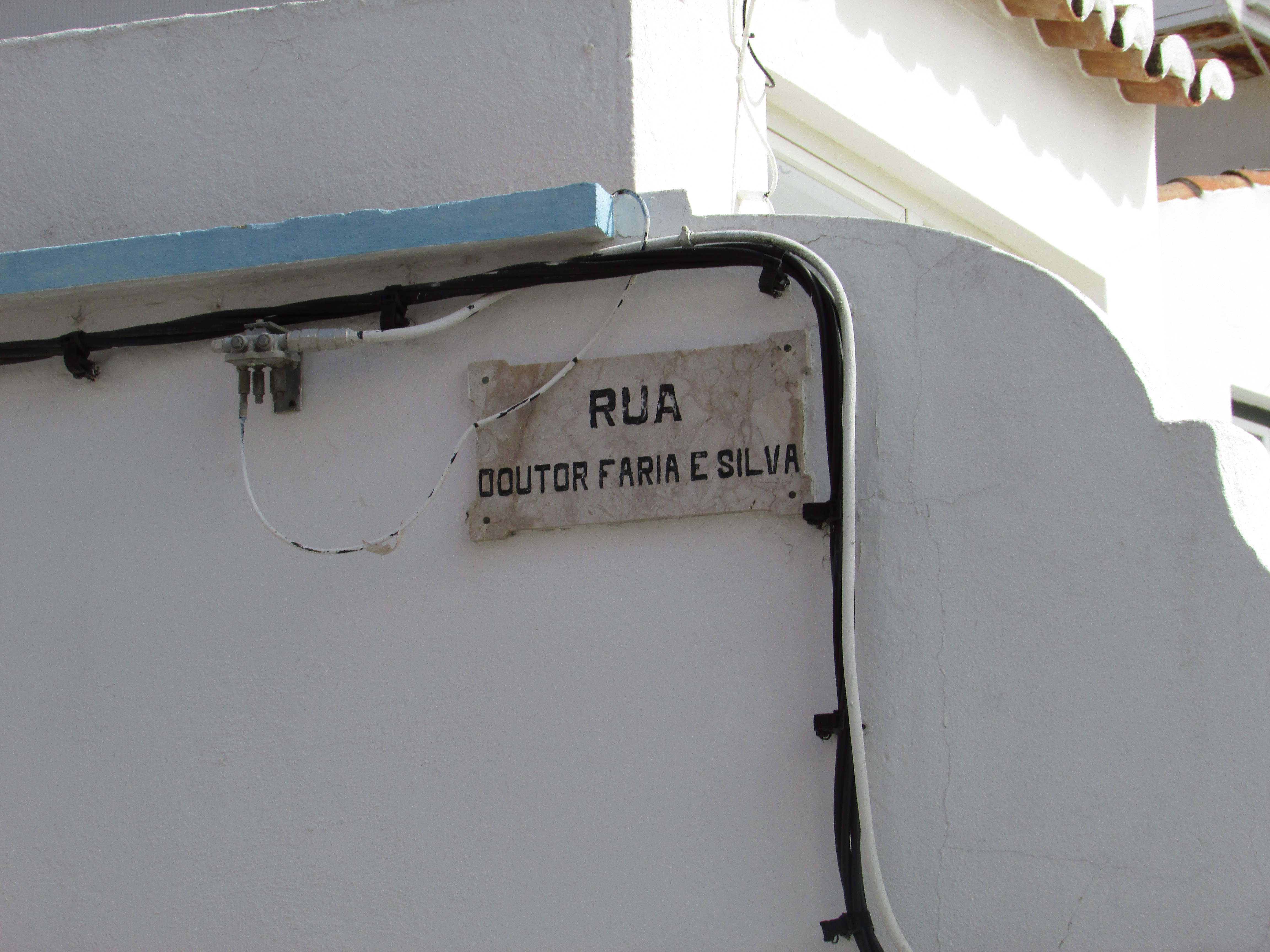 Looking west along the Rua Doutor Faria e Silva in the town of Lagos, Algarve, Portugal.